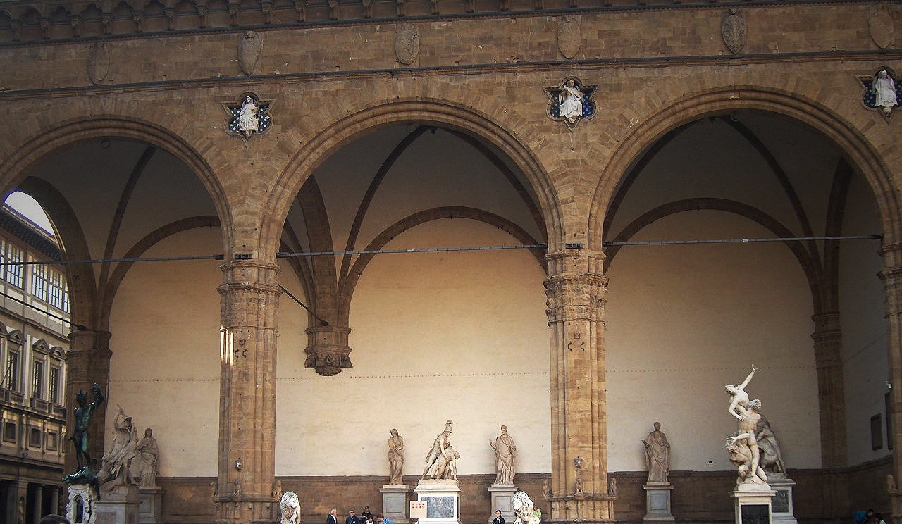 General view of the Loggia dei Lanzi, Florence, Italy Own photo - photo made by Georges Jansoone on 13 October 2005